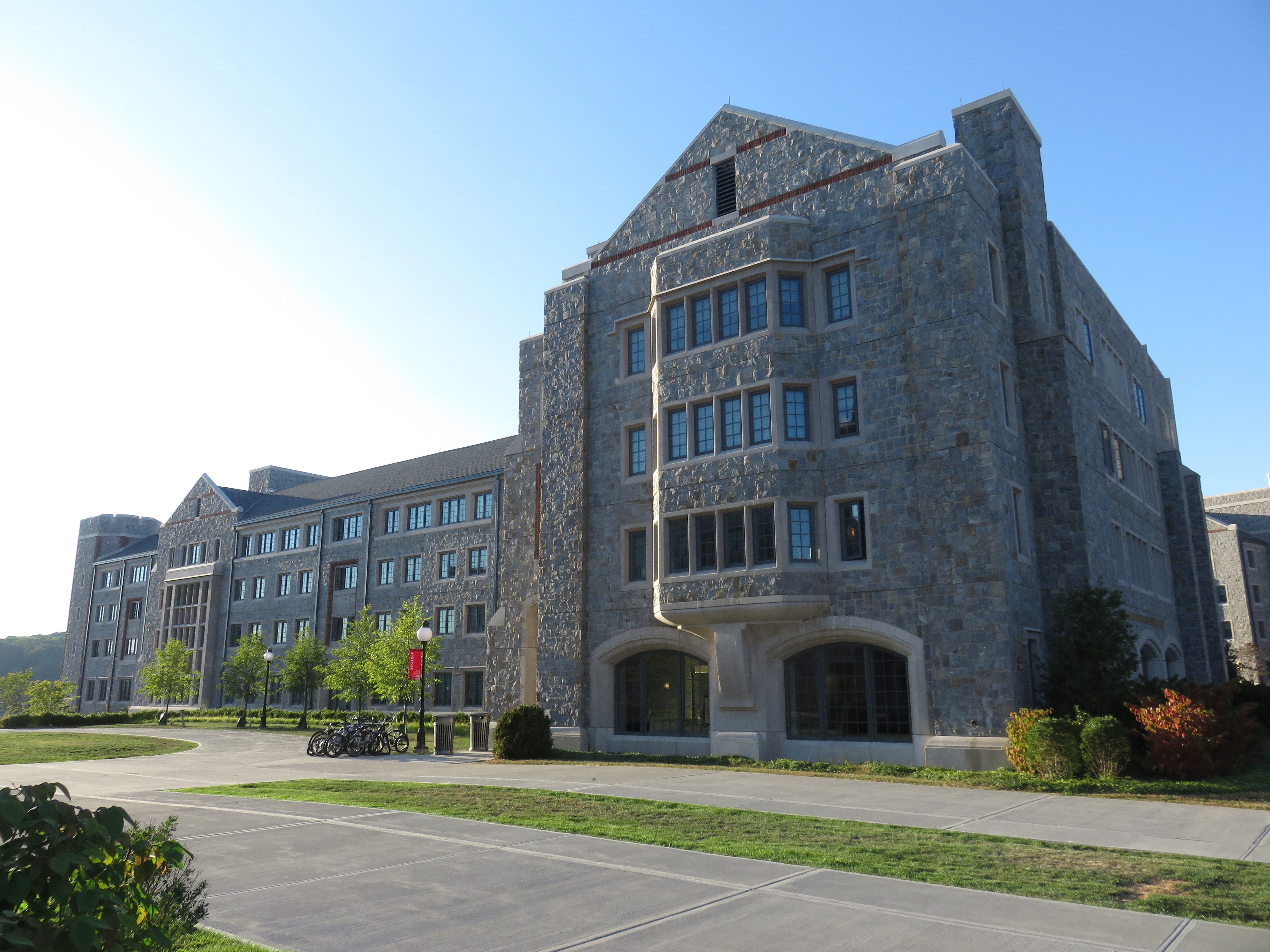 Building at Marist College in Poughkeepsie, New York